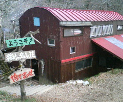 Mountain hut Inamura-ga-take sanso in the Omine Mountains, Nara Prefecture, Japan